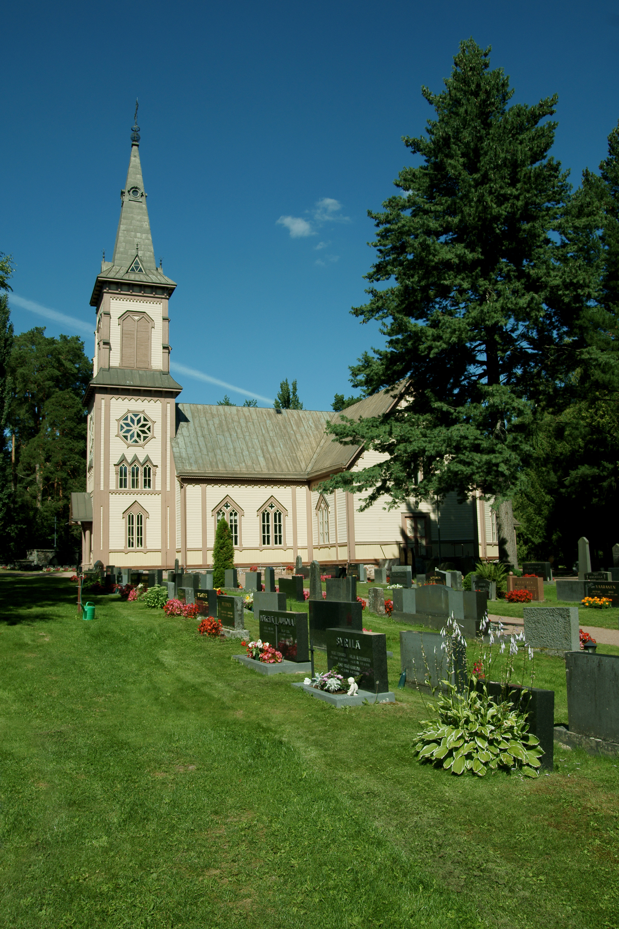 Köyliö Church in Köyliö, Finland.